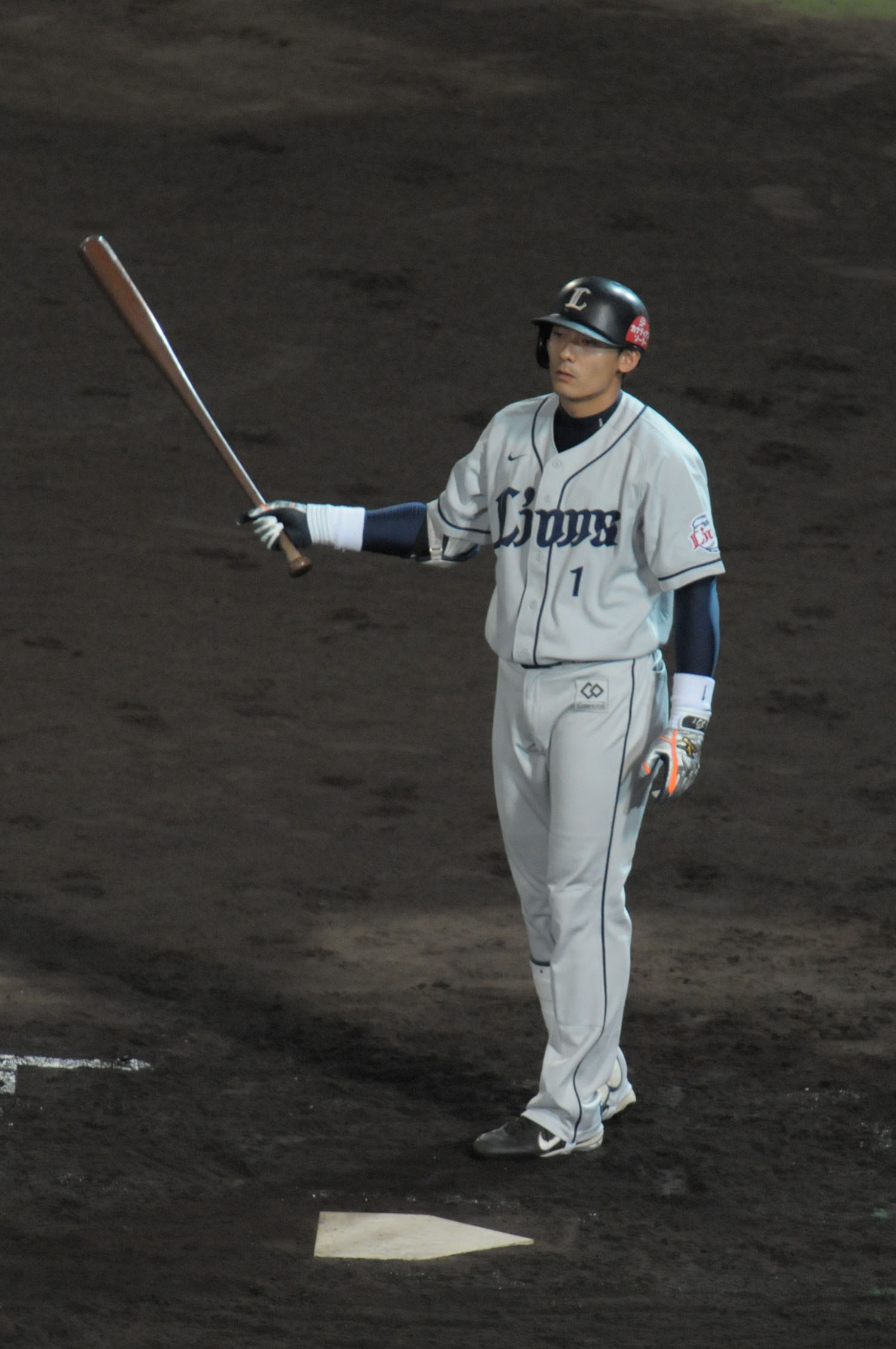 Takumi Kuriyama, outfielder of the Saitama Seibu Lions, at Akita Prefectural Baseball Stadium.